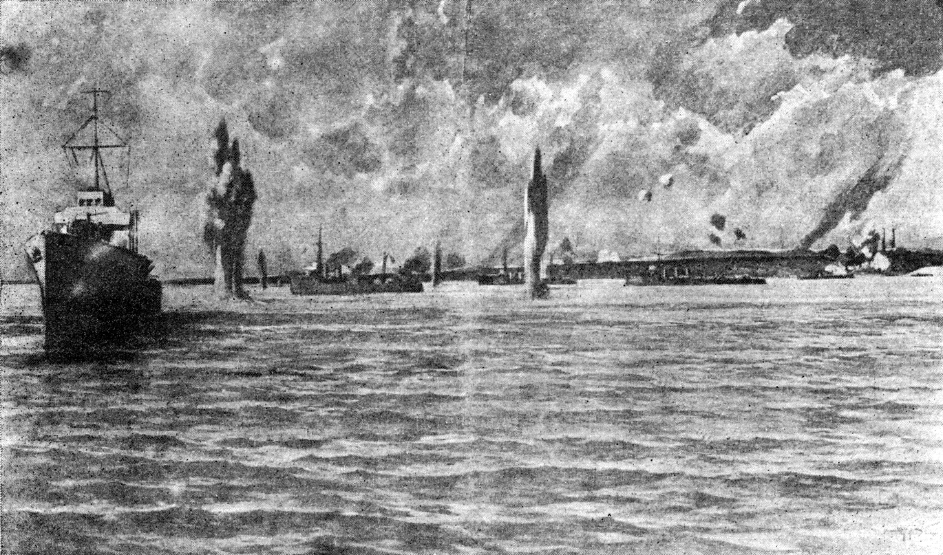 British fleet near Krasnaya Gorka in October 1919.